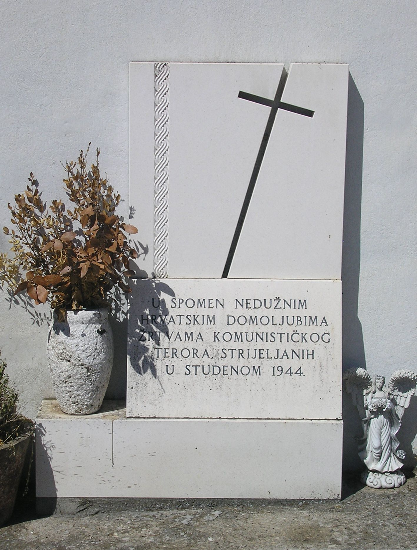 Monument to victioms of communist killing in 1944, Saint John of Nepomuk church in Metković